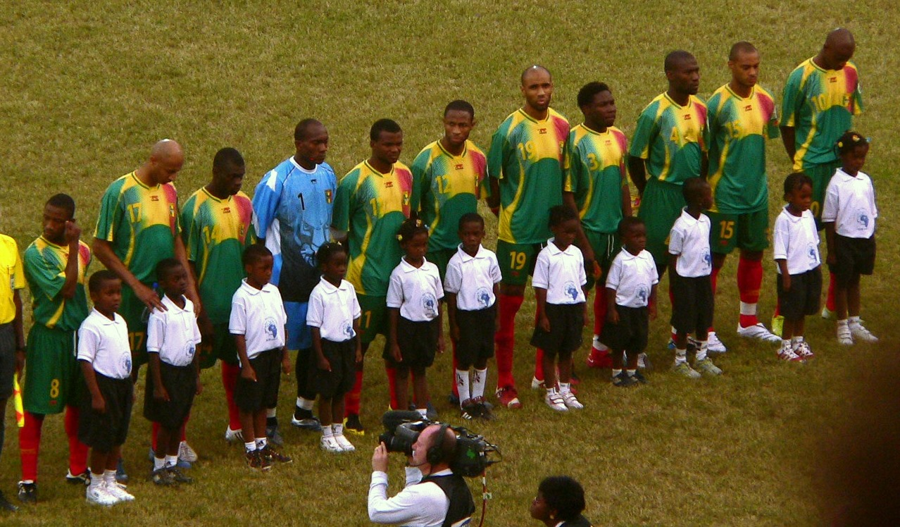 Before their final group B game against Ivory Coas which they lost 4-1. African Nations Cup 2008: Accra, Ghana.